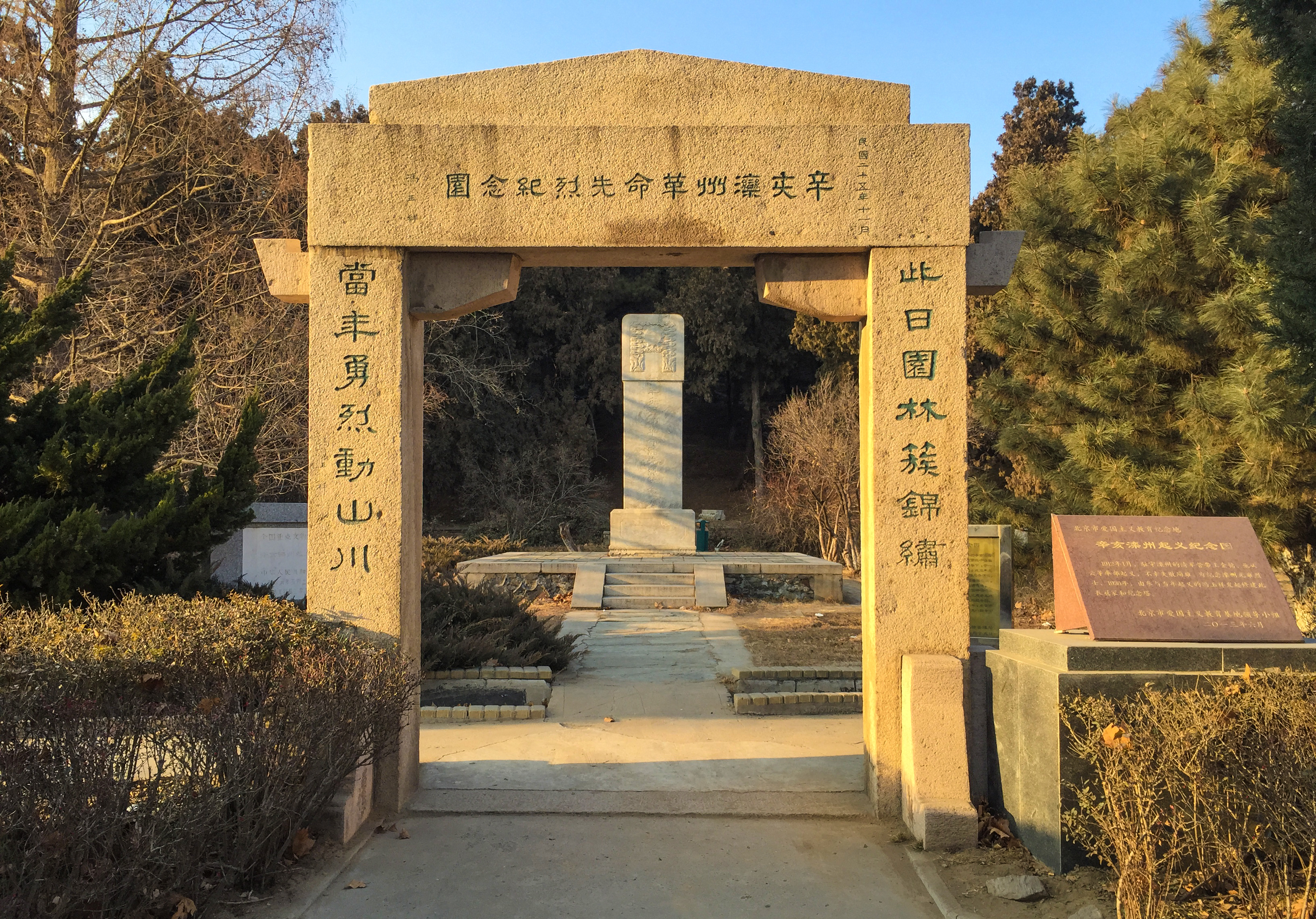 Right in Xianlongshan, Wenquan. This memorial park was established by Feng Yuxiang in 1936.